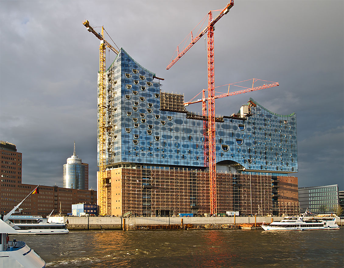 Elbe Philharmonic Hall in Hamburg (Germany) under construction, May 2013. Hamburg, Germany (O5114000-dv-3)